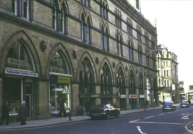 Bradford Wool Exchange There are now a variety of shops on street level and the wool exchange part of the buildings is a branch of Waterstone's Bookshops.